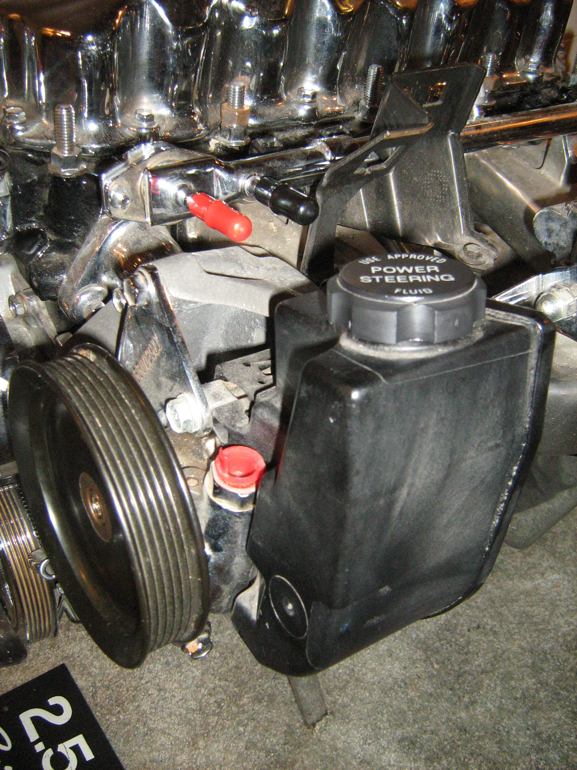 Jeep 2.5 liter 4-cylinder engine, chromed - close up of the power steering pump. This engine was developed by American Motors Corporation (AMC) and continued to be manufactured by Chrysler. All were built in Kenosha, Wisconsin.